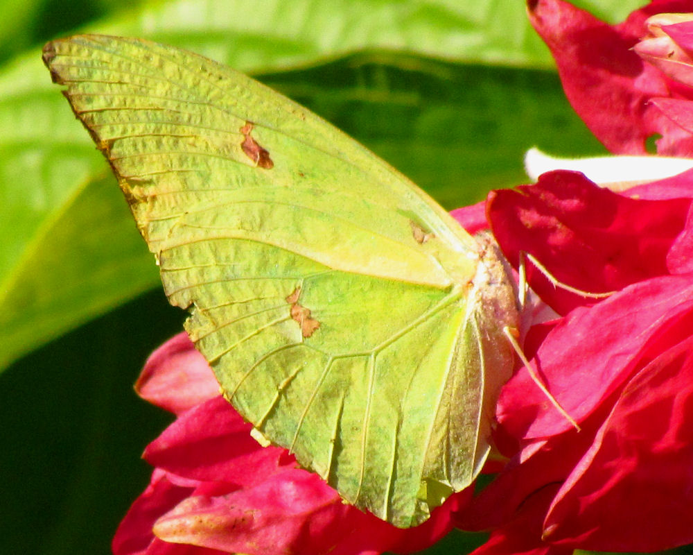 Orange-tipped Angled-sulphur (Anteos menippe), Tambopata Park, Peru